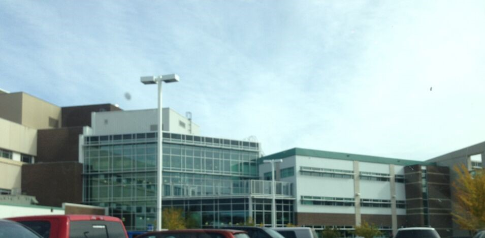 Red Deer Regional Hospital pictured from the Southwest in September of 2015